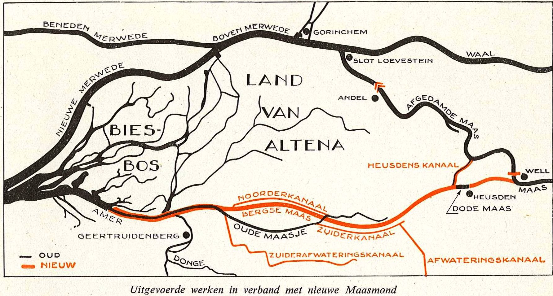 Uitgevoerde werken in verband met nieuwe Maasmond